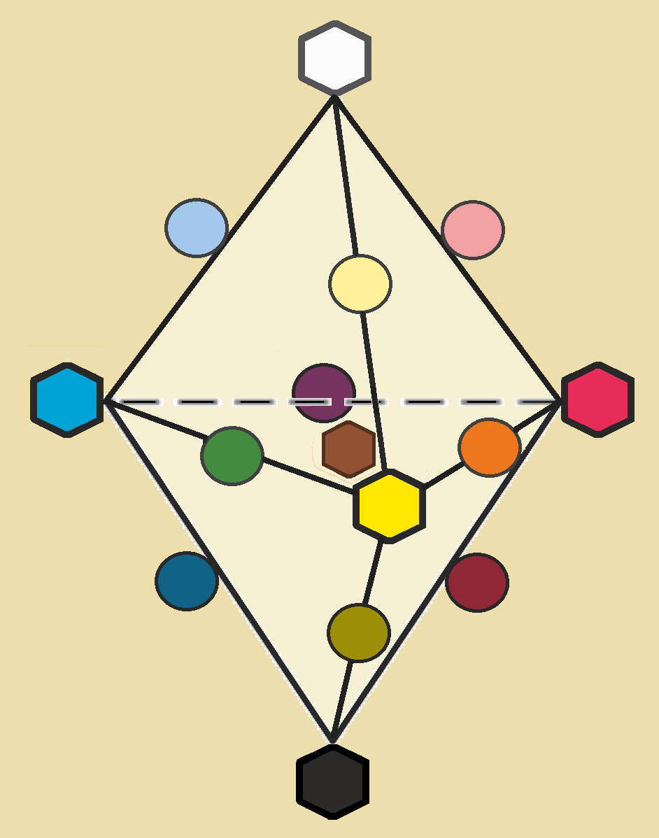 Tobias Mayer's double triangular pyramid color solid.